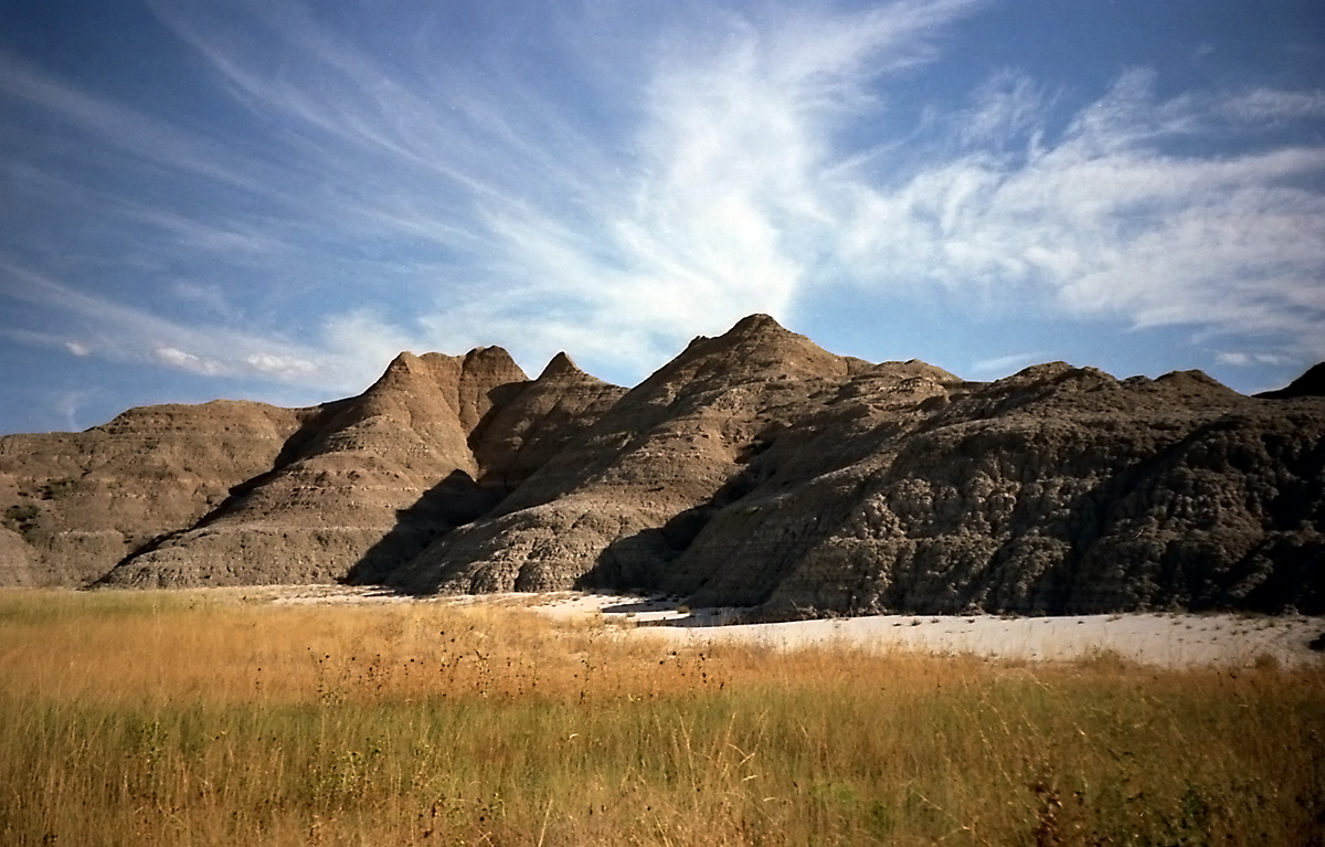 Badlands National Park, South Dakota, USA